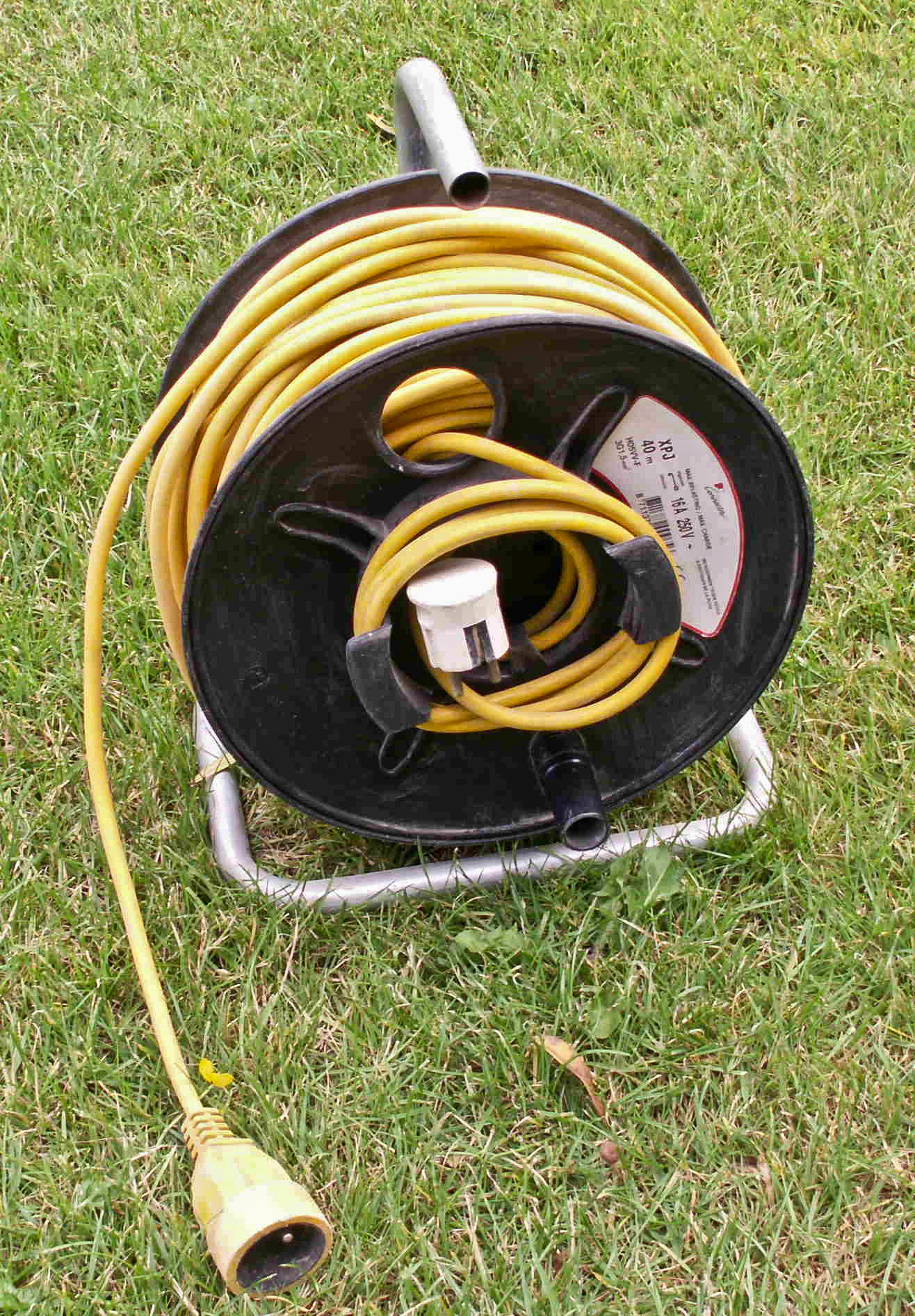 A picture of a (insulated and grounded) electric wire on a reel. The wire is capable of handling currents up to 250 volt with 16 ampère. The reel allows easy winding to deploy the wire quickly.